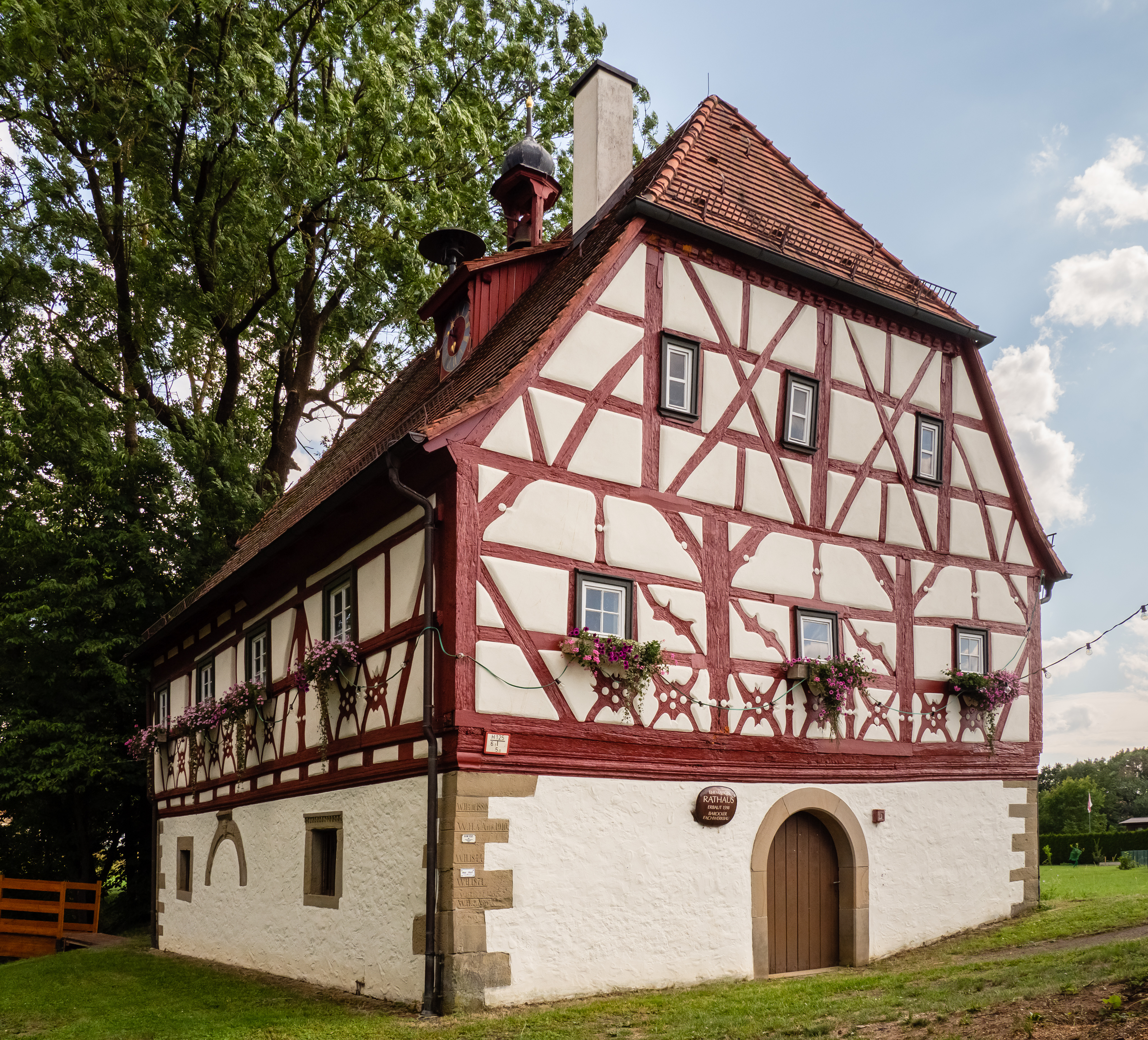 Old town hall in Sylbach